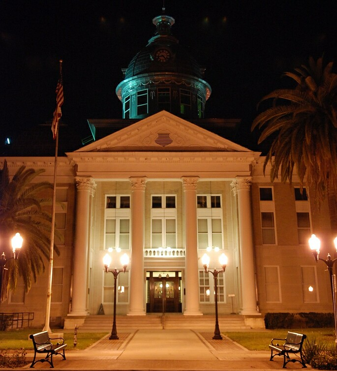 Old Polk County Courthouse at night